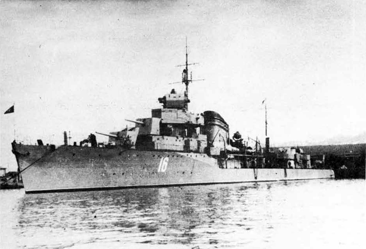 Gnevny-class destroyer Boiki